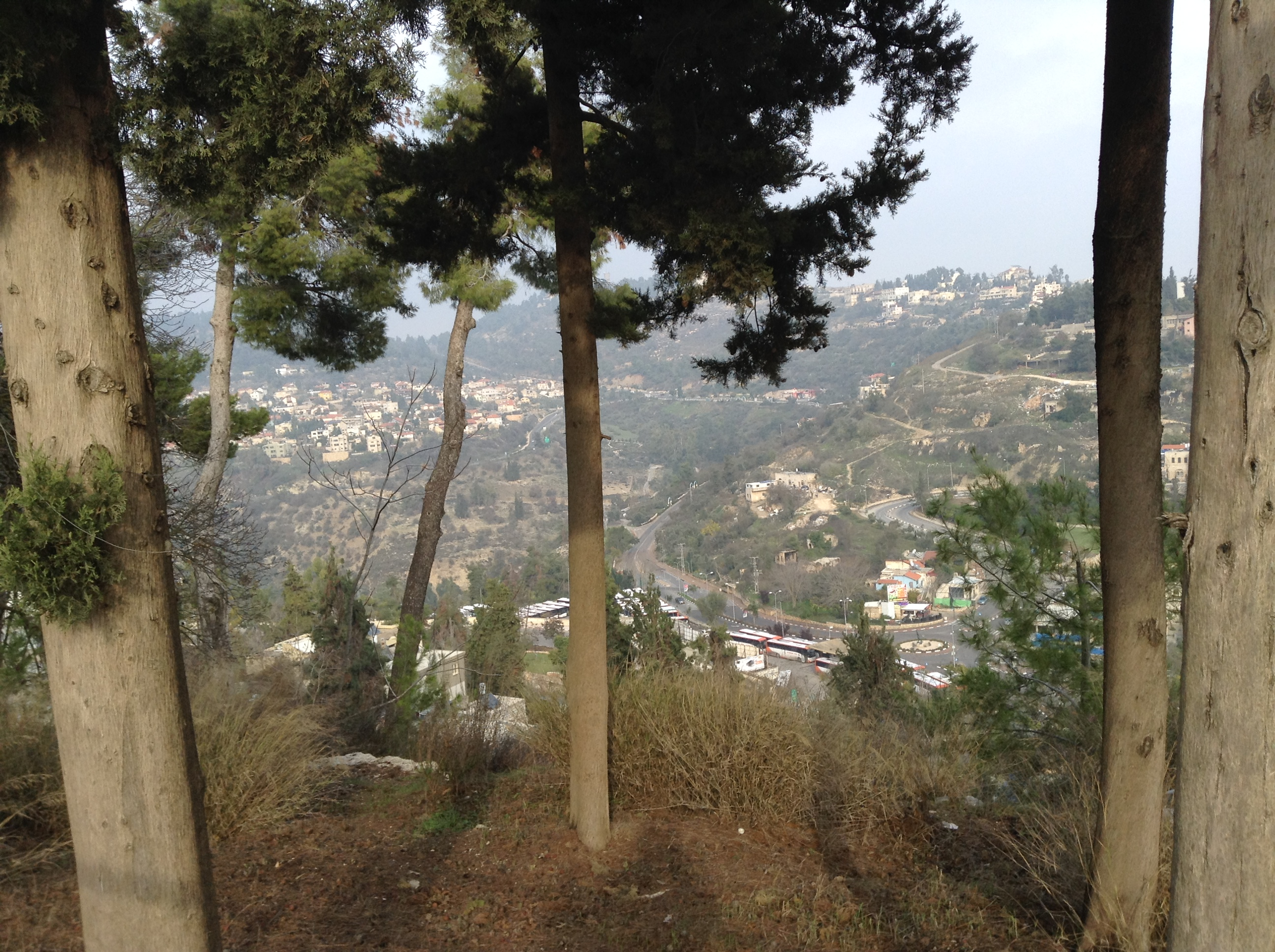 Safed view